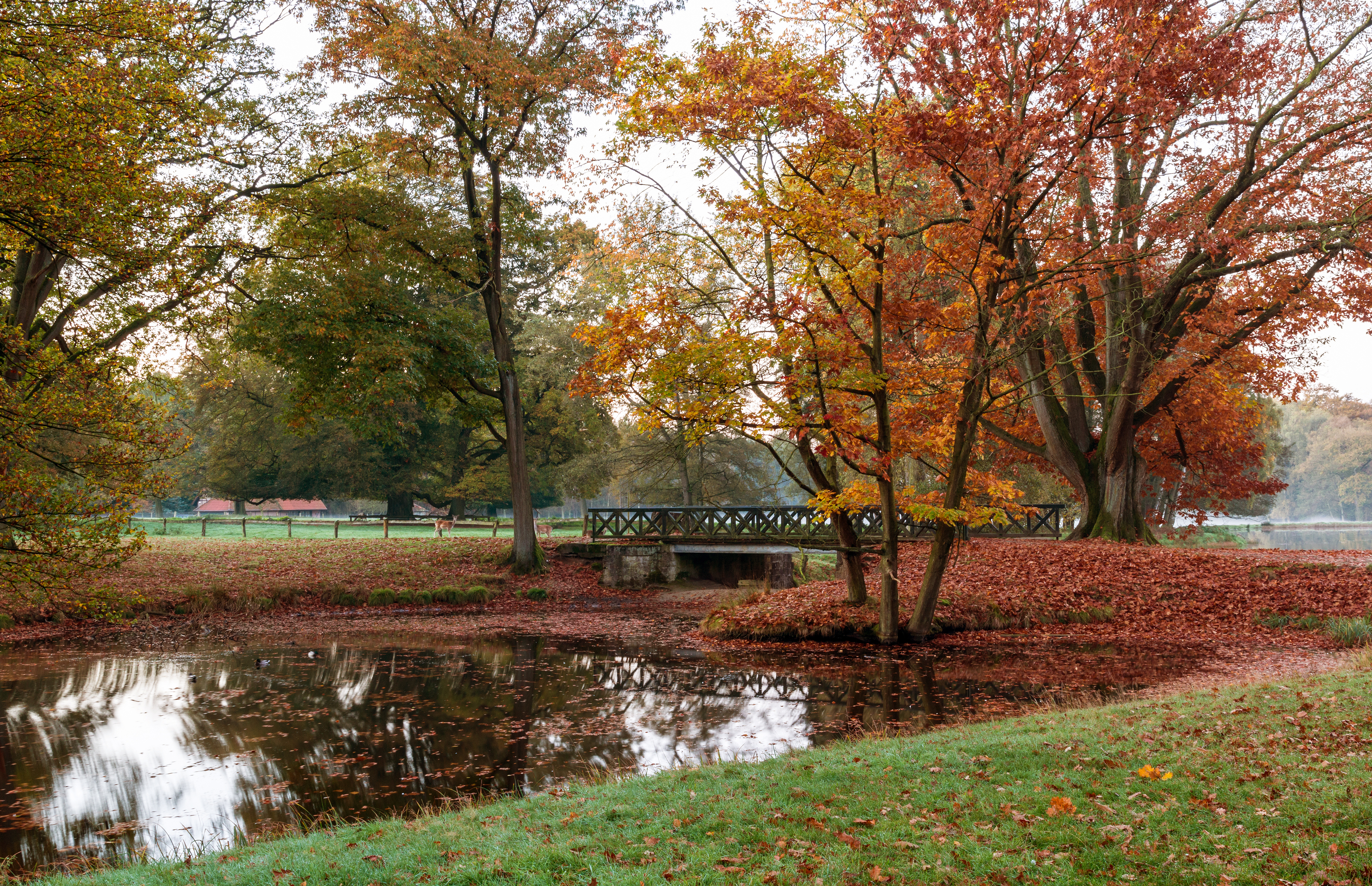 Wildpark, Dülmen, North Rhine-Westphalia, Germany This image shows a heritage building in Germany, located in the North Rhine-Westphalian city Dülmen (no. 61).